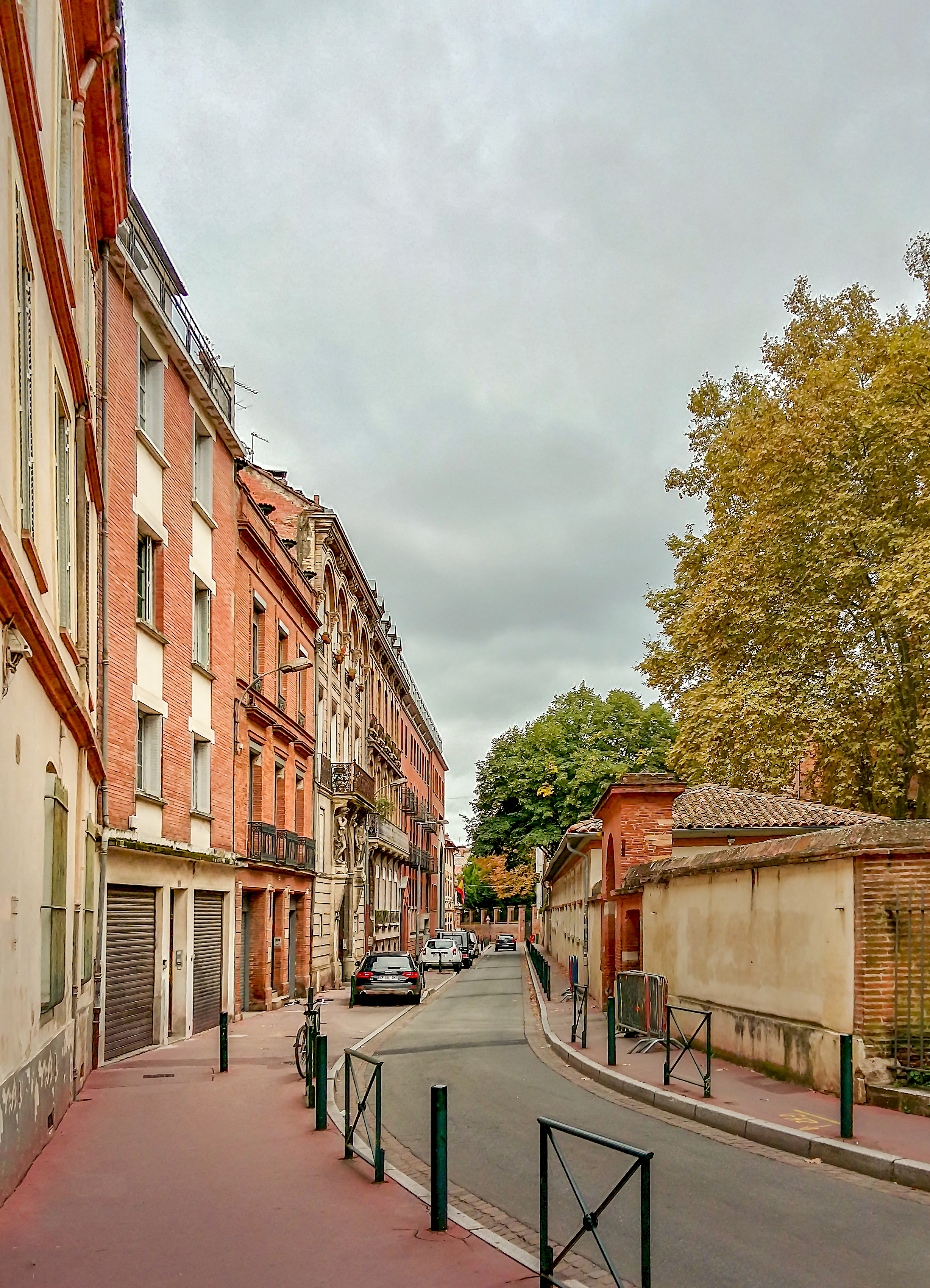 Rue Sainte-Anne, in Toulouse, view from Rue Bertrand-de-l'Isle